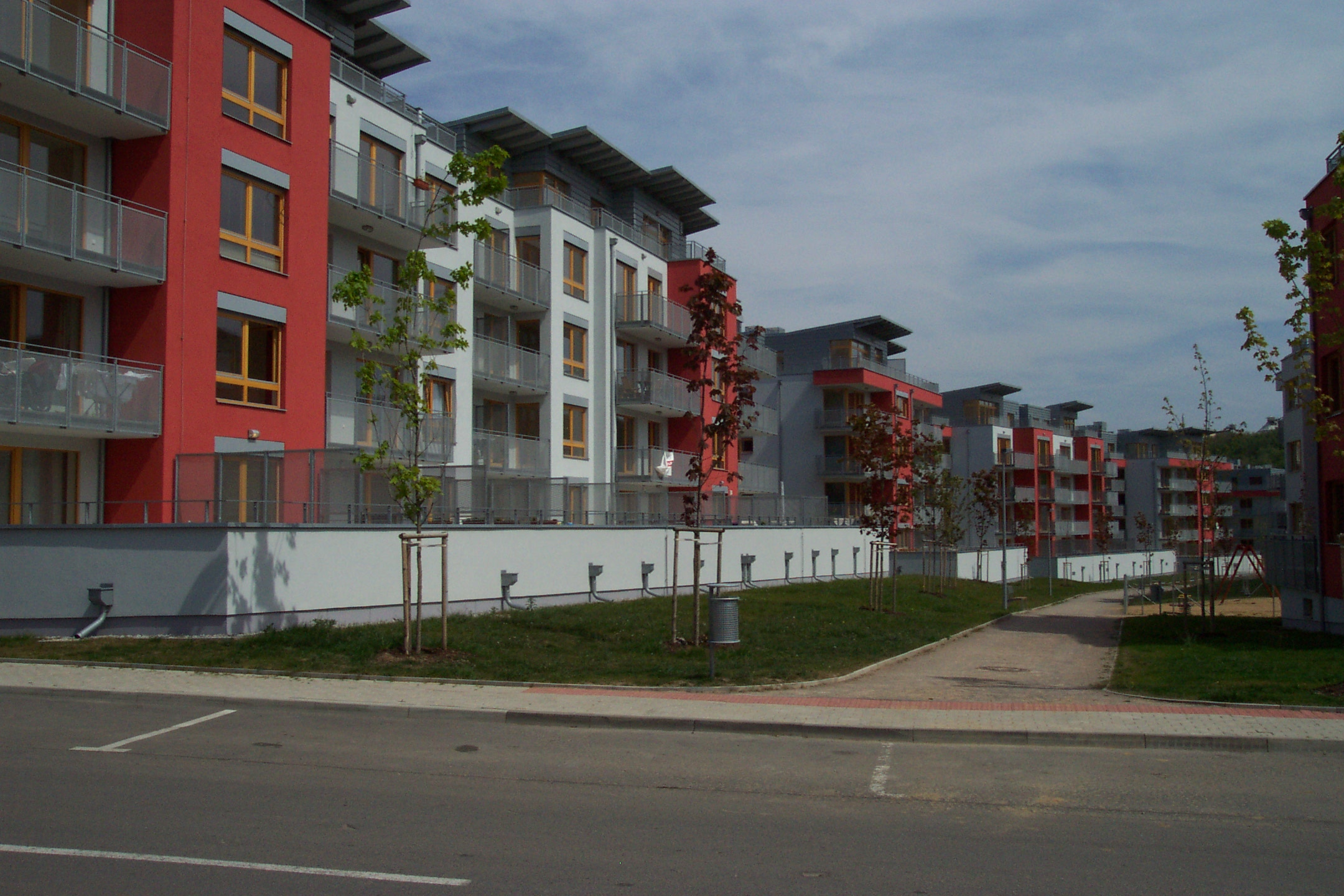 Prague, Liboc, new housing